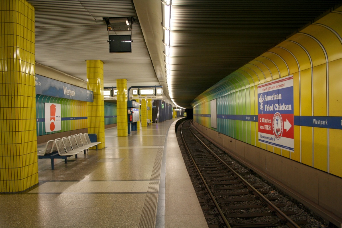 Munich subway station Westpark